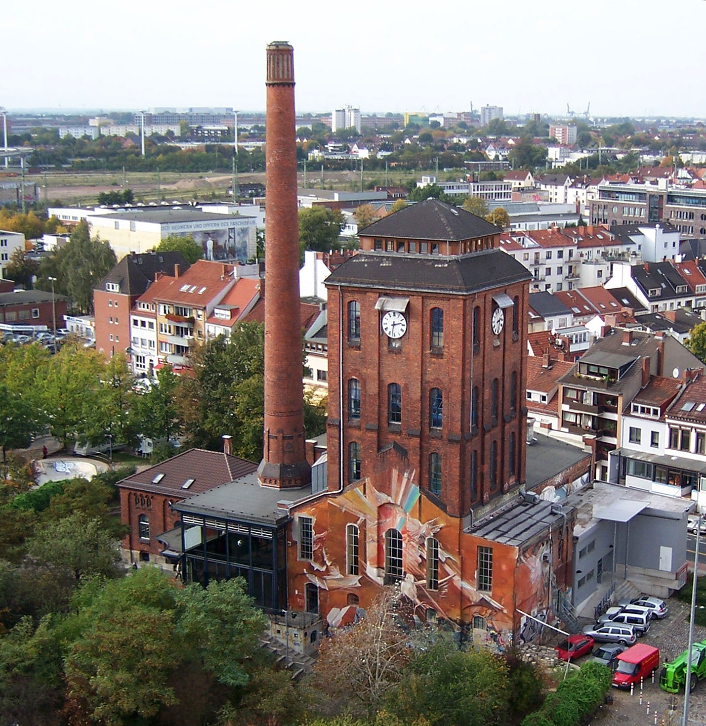 cultural center in former slaughterhouse in Bremen, Germany